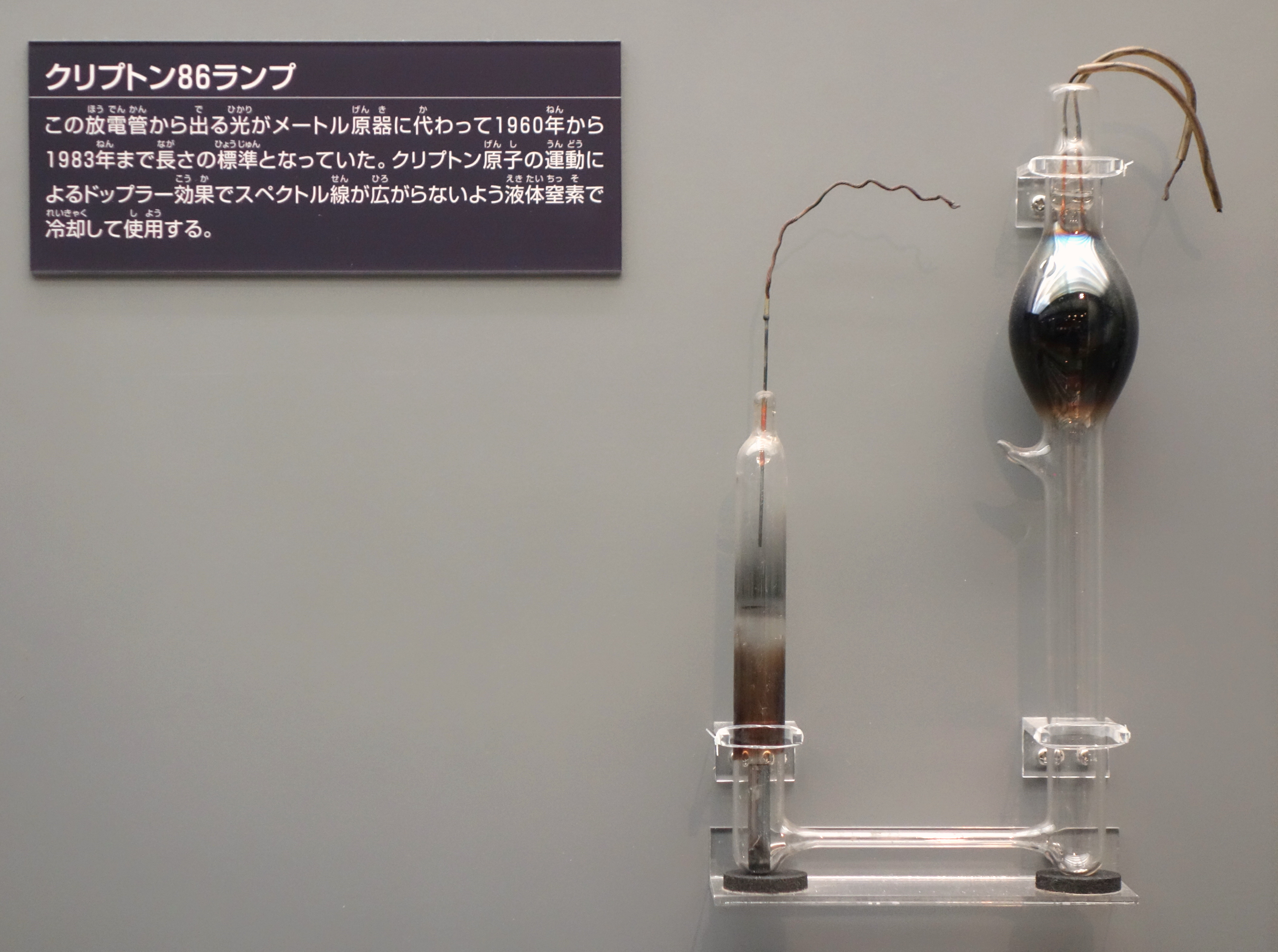 A krypton gas discharge lamp. Exhibit in the National Museum of Nature and Science, Tokyo, Japan.